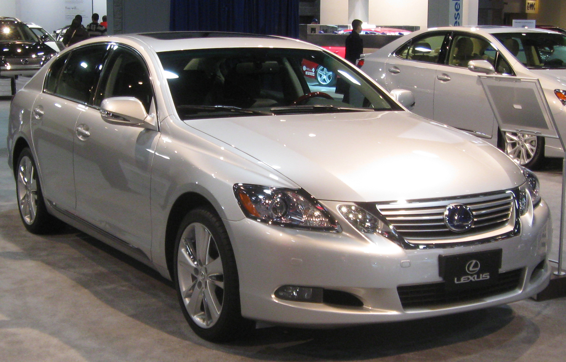 2010 Lexus GS450h photographed at the 2010 Washington Auto Show.